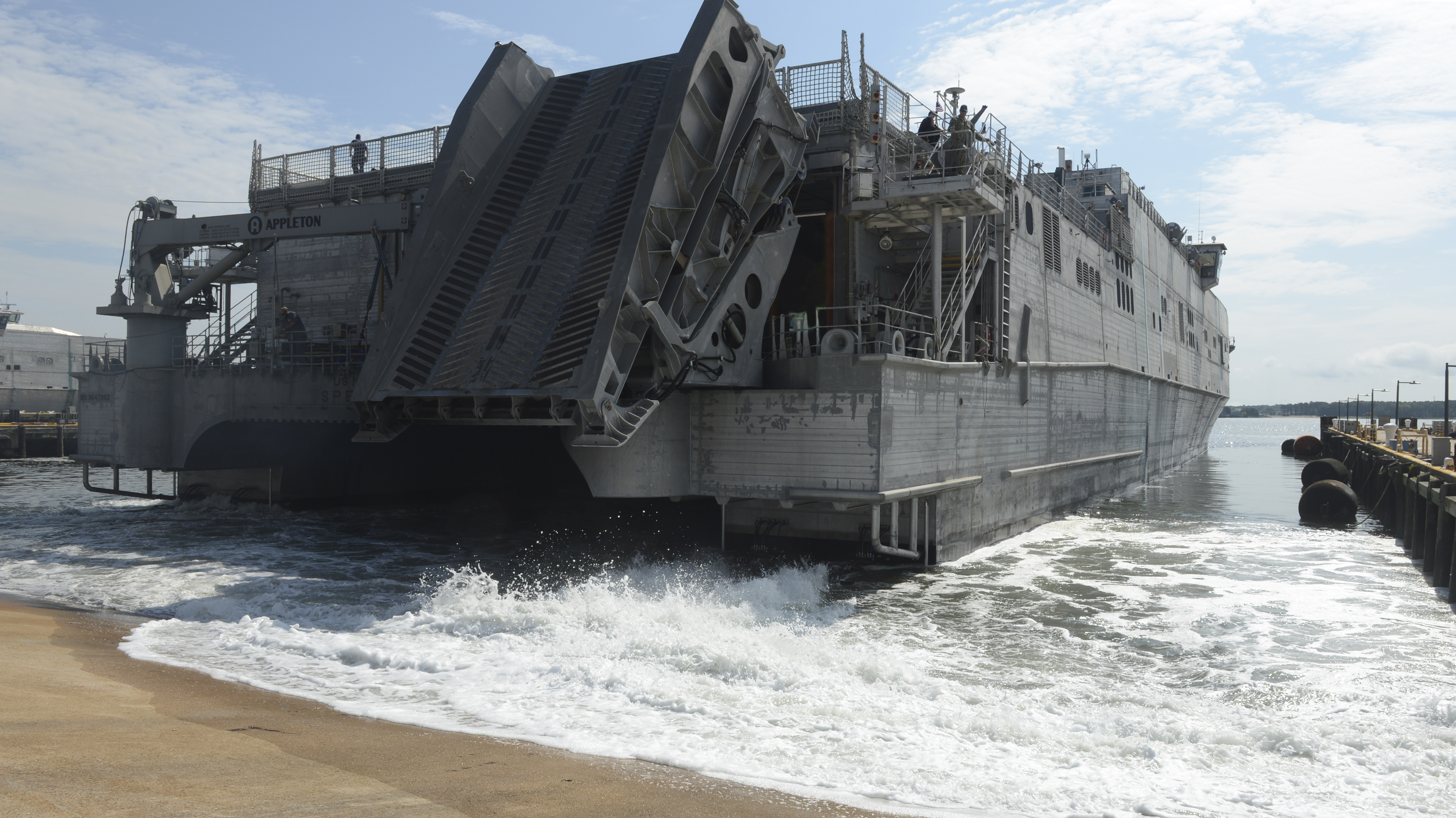 150705-N-BJ279-080 LITTLE CREEK, Va. (July 05, 2015) The Military Sealift Command joint high-speed vessel USNS Spearhead (JHSV 1) pulls away from a pier at Joint Expeditionary Base Little Creek-Fort Story. Spearhead is deploying to support Southern Partnership Station 2015, a U.S. Navy deployment focused on subject matter expert exchanges with partner nation militaries and security forces. (U.S. Navy photo by Mass Communication Specialist 1st Class Kathleen A. Gorby/Released)